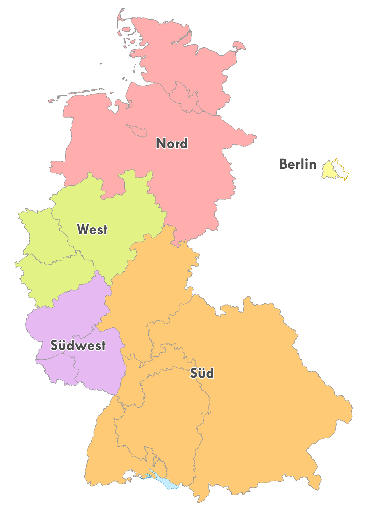 Map of German Soccer Oberlliga, 1951-63, excluding Eastern Germany, but including Eastern Berlin